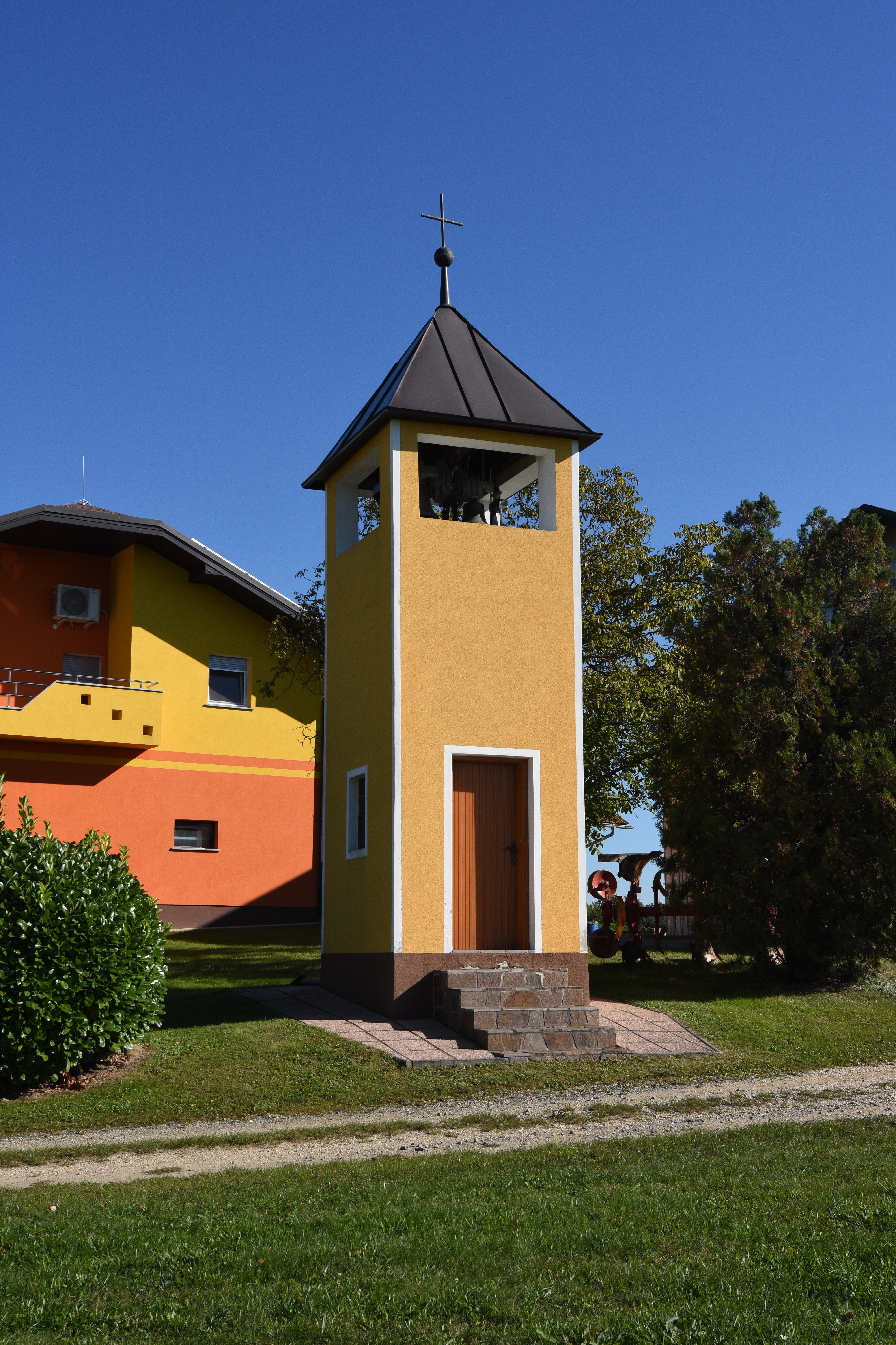 Ženavlje